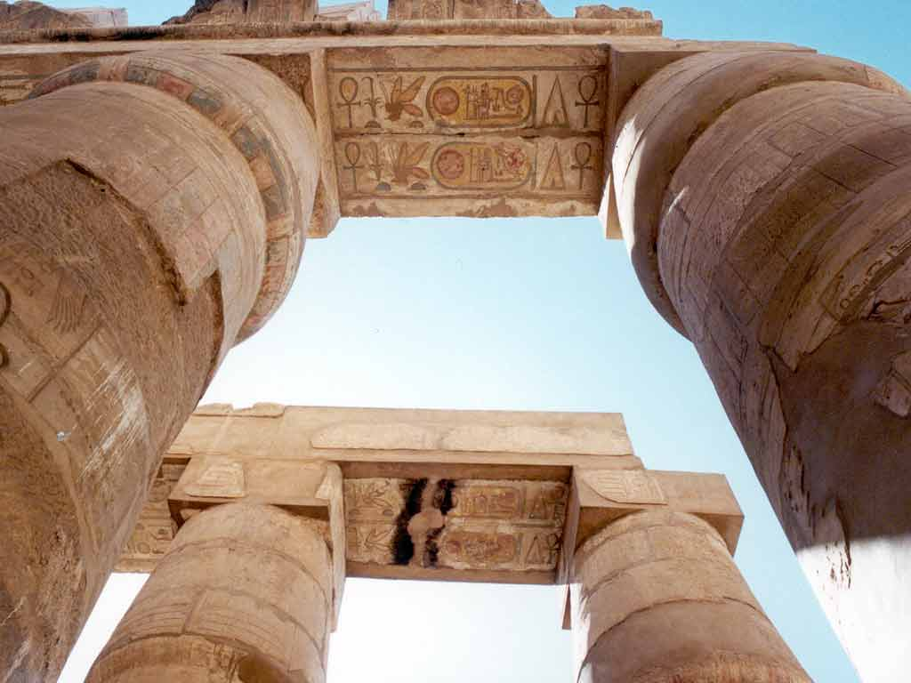 Pillars in Karnak Temple, Luxor, Egypt